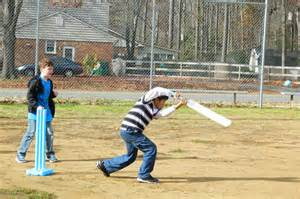 Aaqib A. playing cricket